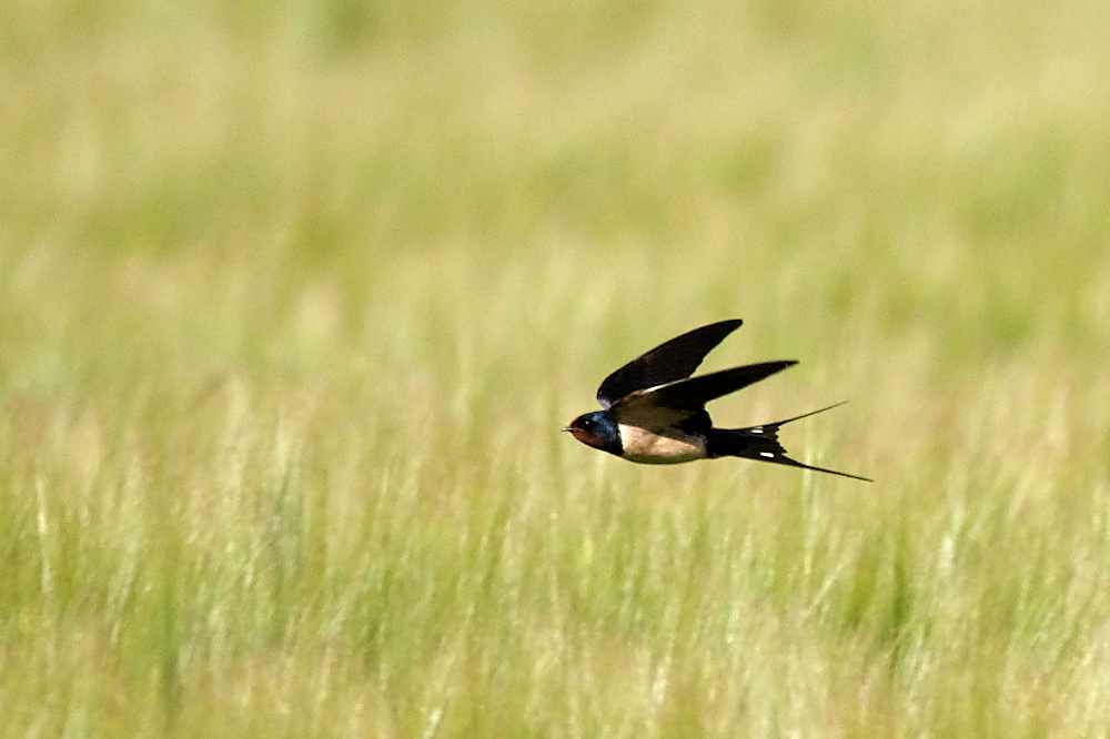 A hunting barn swallow (Hirundo rustica) in flight, taken near Hannover, Germany.